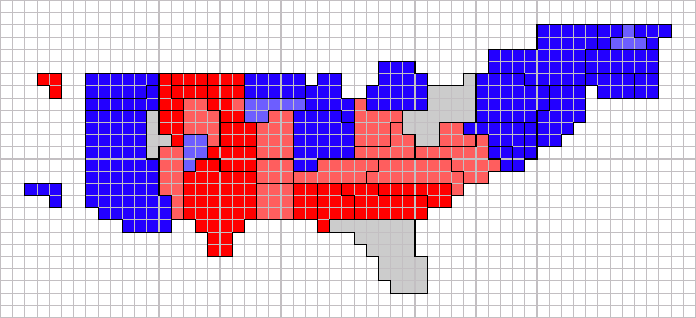 Cartogram for Electoral College votes by state in last four Presidential elections.